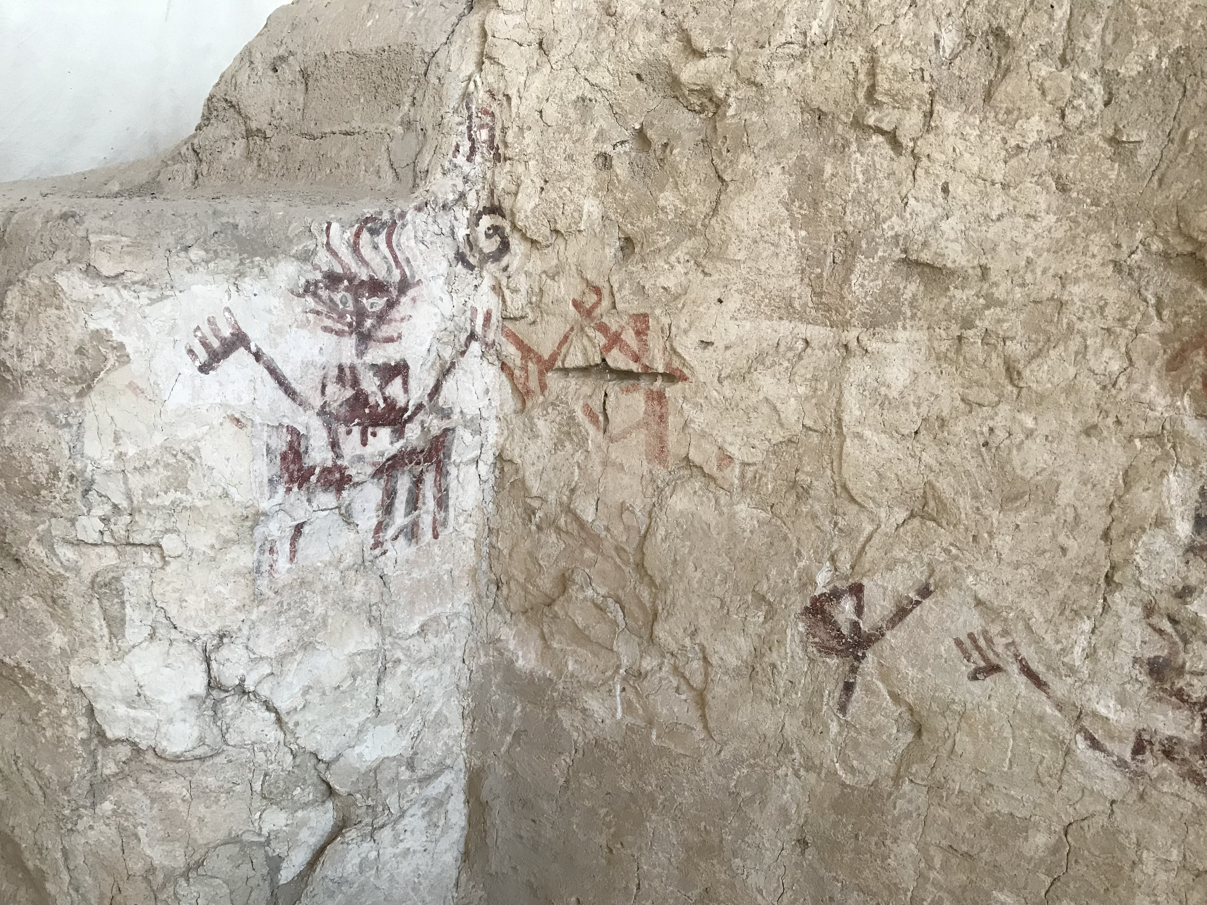 Mural paintings in Arslantepe Ruins, Malatya, Turkey.